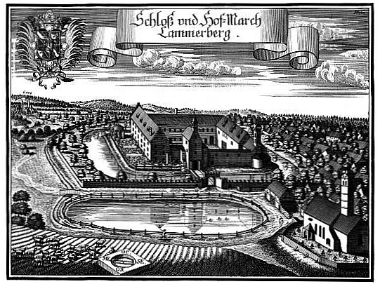 Castle Kammerberg made by Michael Wening in Topographia Bavariae about 1700